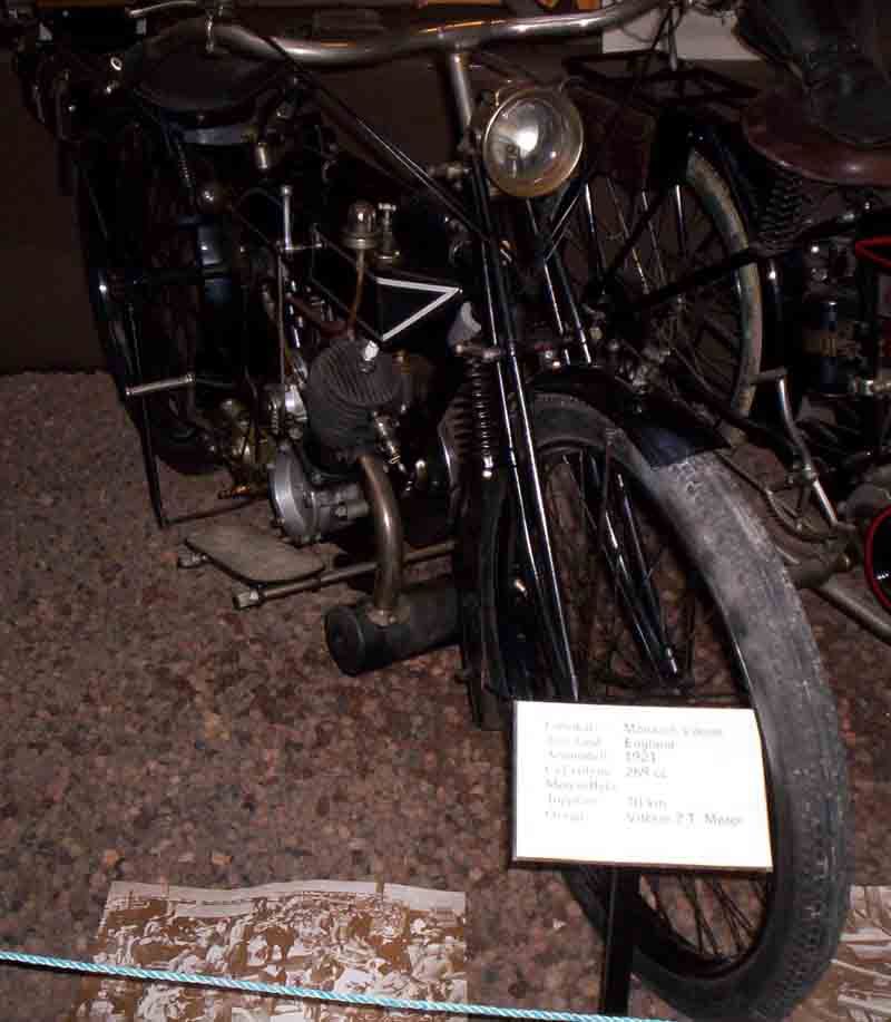 Monarch Vitesse 269 cc 1921